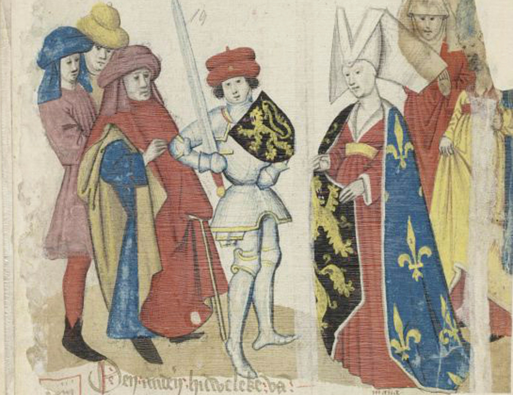 Marriage of Henry I of Brabant and Marie of France